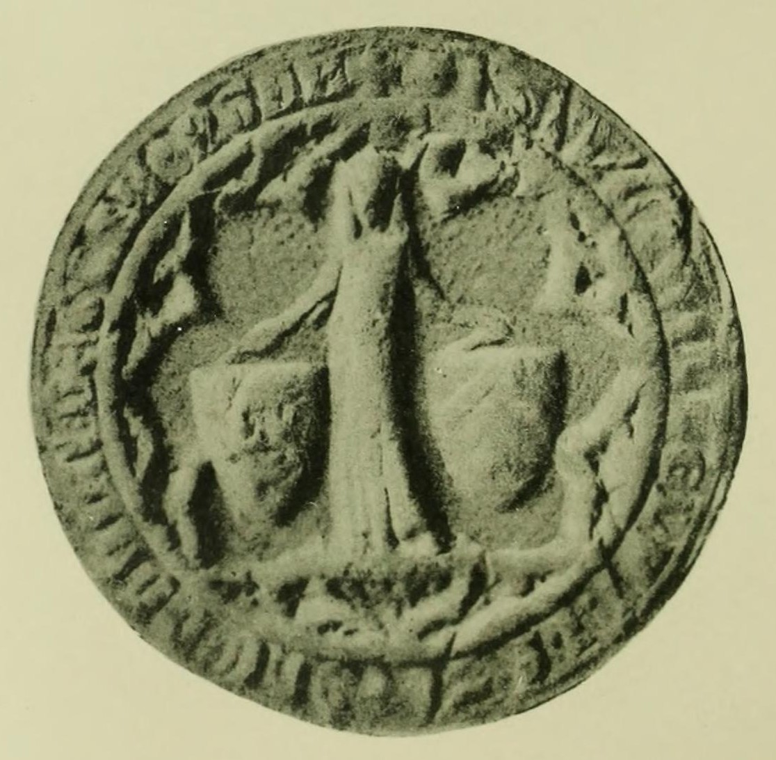 Seal of Eleanor de Clare (1292-1337), suo jure Lord of Glamorgan.